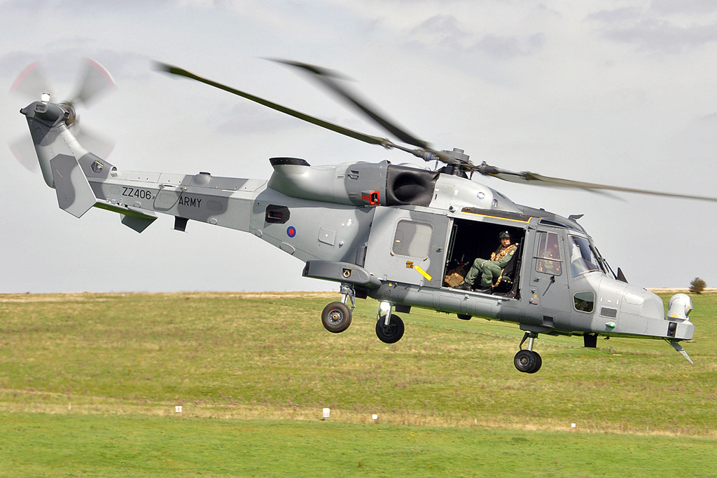 ZZ406 was the first production Wildcat delivered to the Army Air Corps in May 2013.